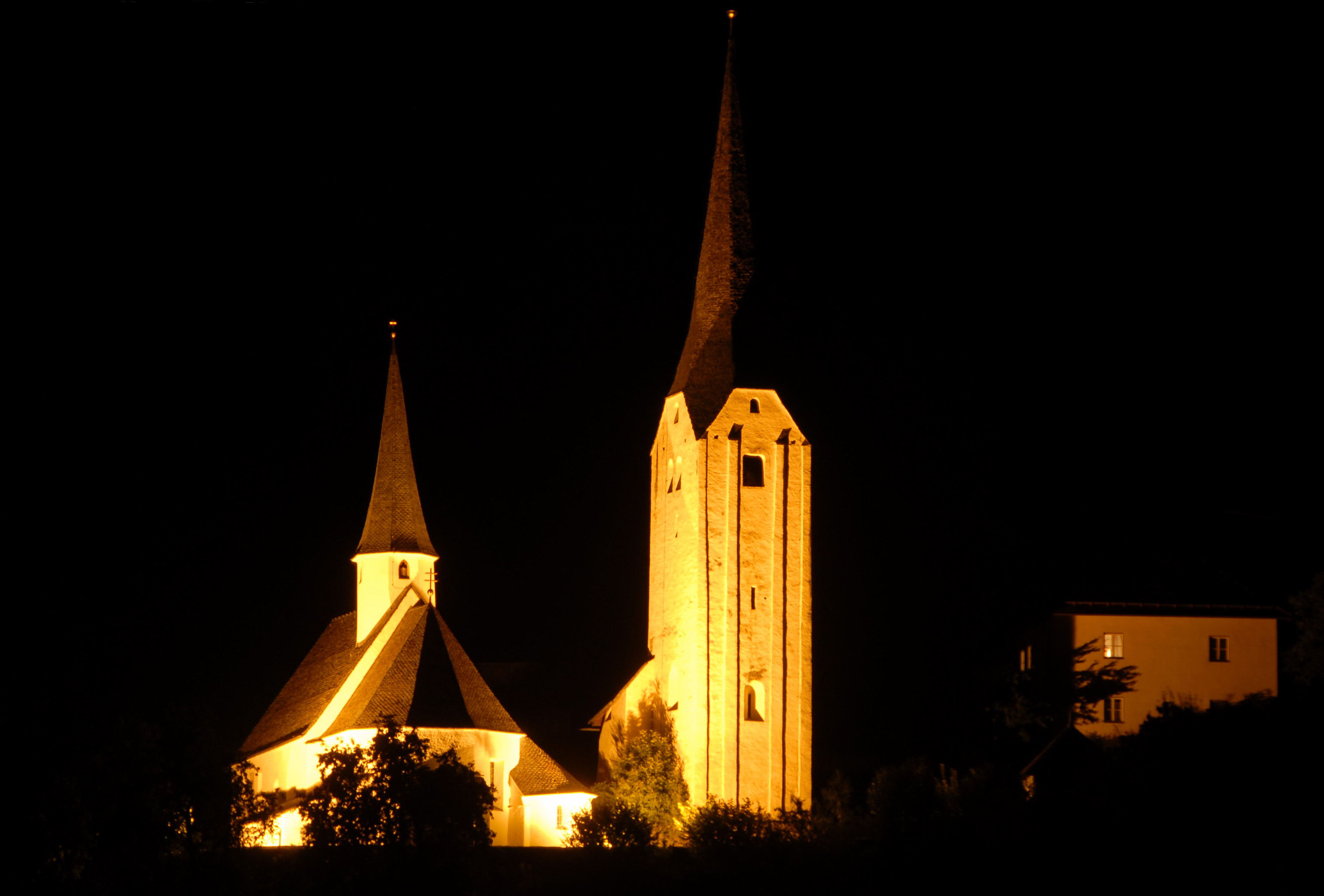 Parish church Saint Martin at Sörg, market town Liebenfels, district Sankt Veit an der Glan, Carinthia, Austria, EU